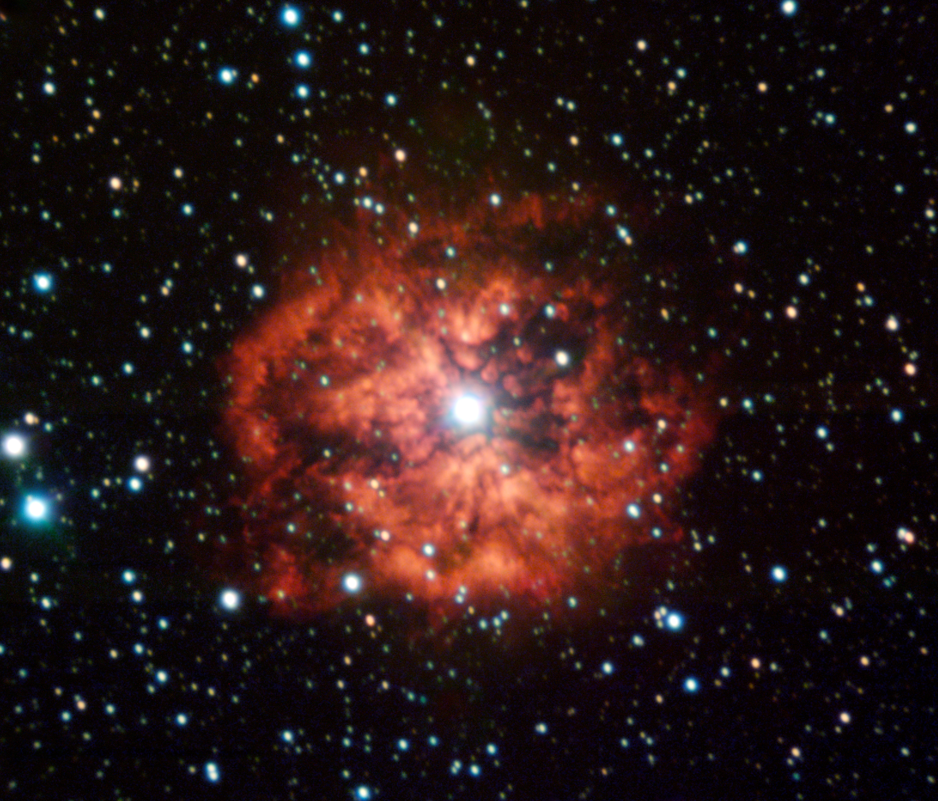 M1-67 is the youngest wind-nebula around a Wolf-Rayet star, called WR124, in our Galaxy. These Wolf-Rayet stars start their lives with dozens of times the mass of our Sun, but loose most of it through a powerful wind, which is ultimately responsible for the formation of the nebula. Ten years ago, Hubble Space Telescope observations revealed a wealth of small knots and substructures inside the nebula. The same team, led by Cédric Foellmi (ESO), has now used ESO's Very Large Telescope (VLT) to watch how these structures have evolved and what they can teach us about stellar winds, their chemistry, and how they mix with the surrounding interstellar medium, before the star will eventually blow everything away in a fiery supernova explosion. The image is based on FORS1 data obtained by the Paranal Science team with the VLT through 2 wide (B and V) and 3 narrow-band filters.